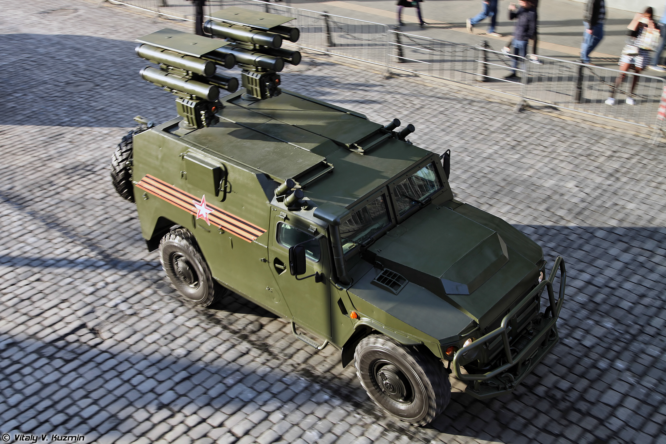 Kornet-D